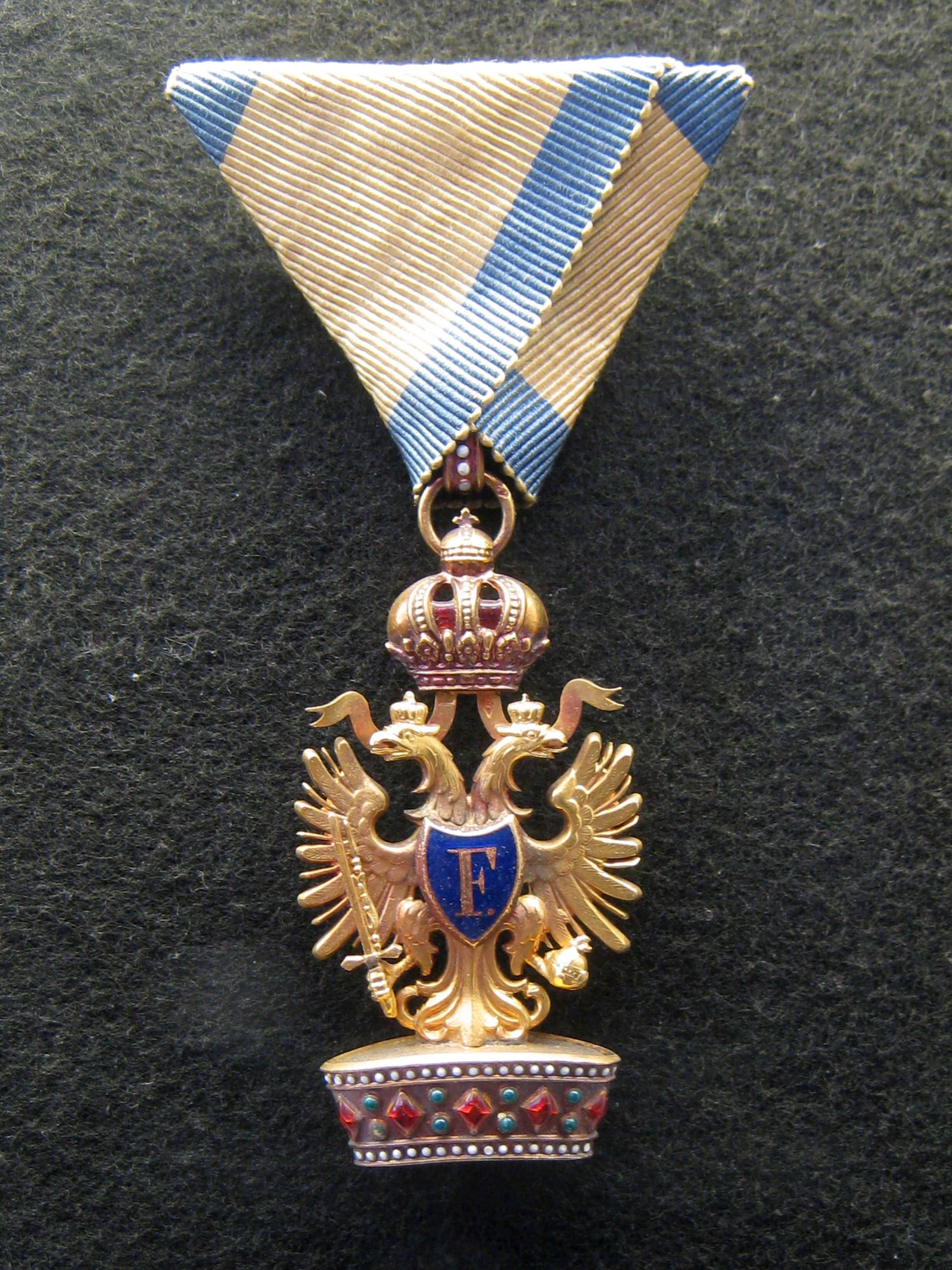 Order of the Iron Crown (Austria), from the collection of Don Pedro Christopherson. In the Fram Museum, Oslo, Norway.